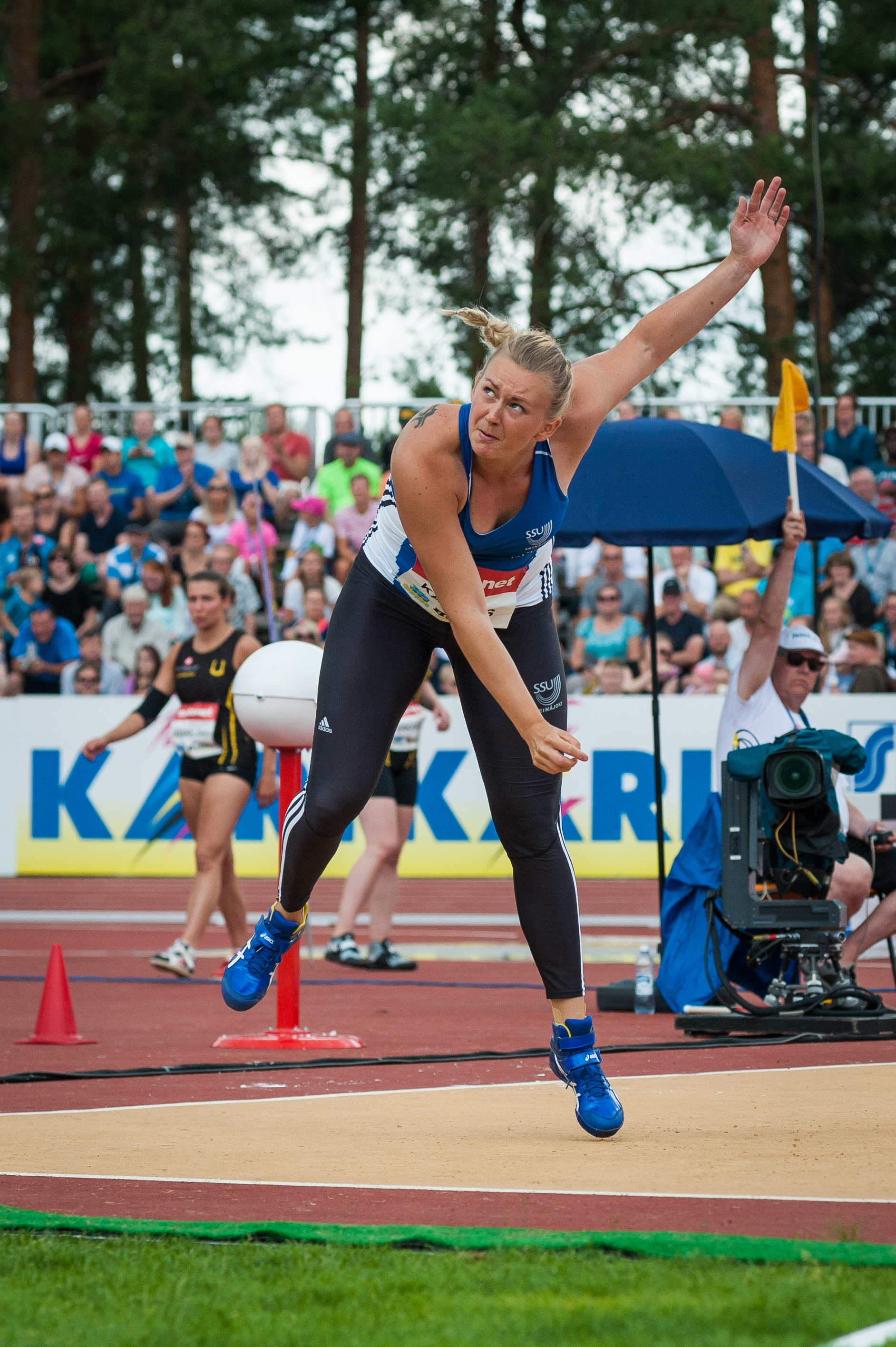 Women's javelin throw competition at the 2018 Kalevan Kisat, the Finnish championships in athletics, in Jyväskylä, Finland.